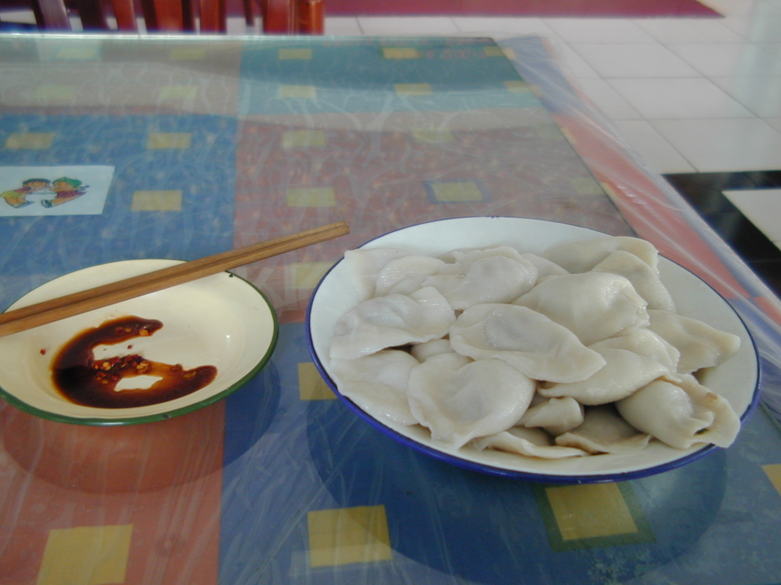 shuijao(boiled jiaozi) at Harbin Institute of Technology